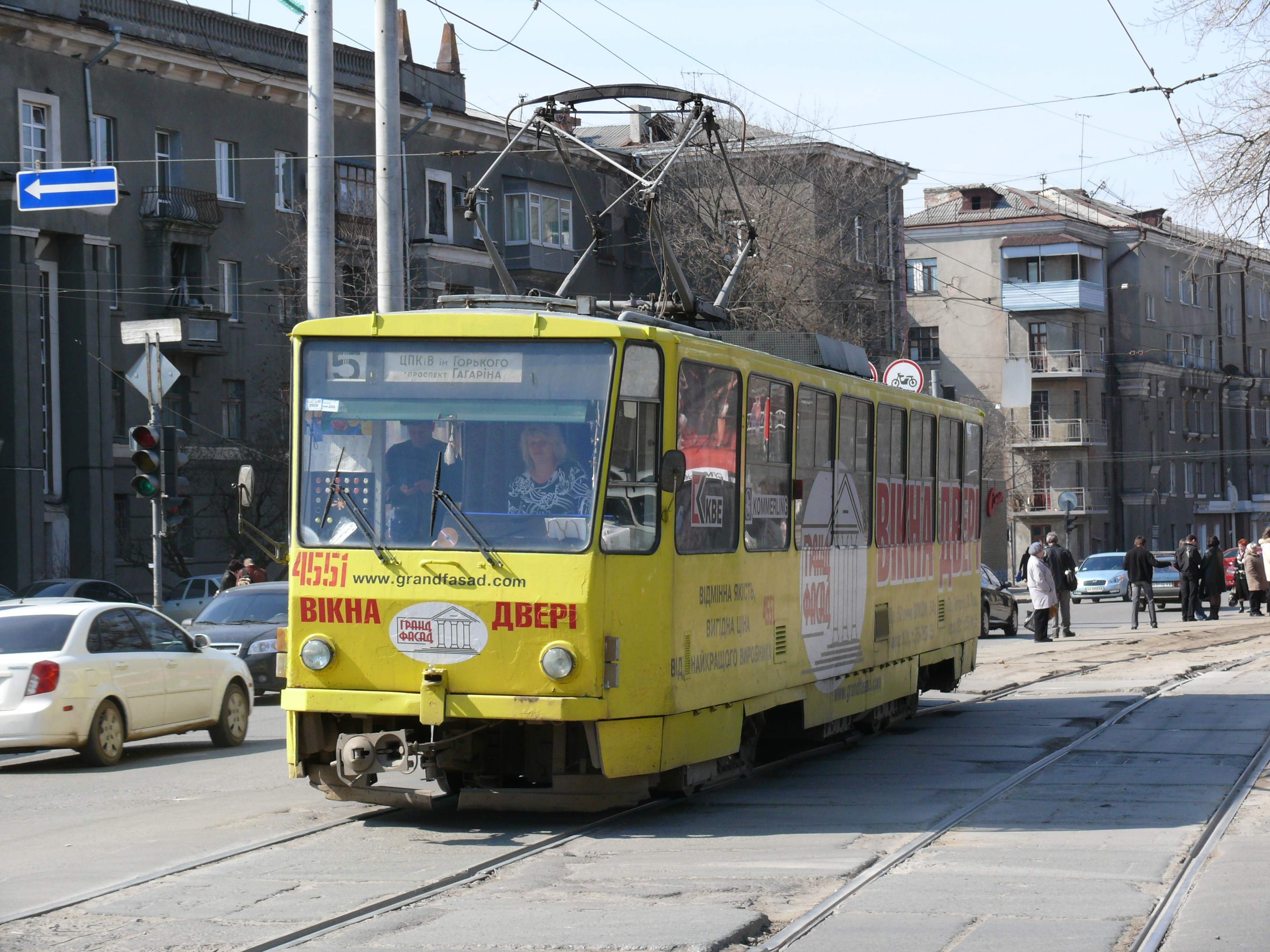 Kharkov tram Tatra T6B5 4551 №5.